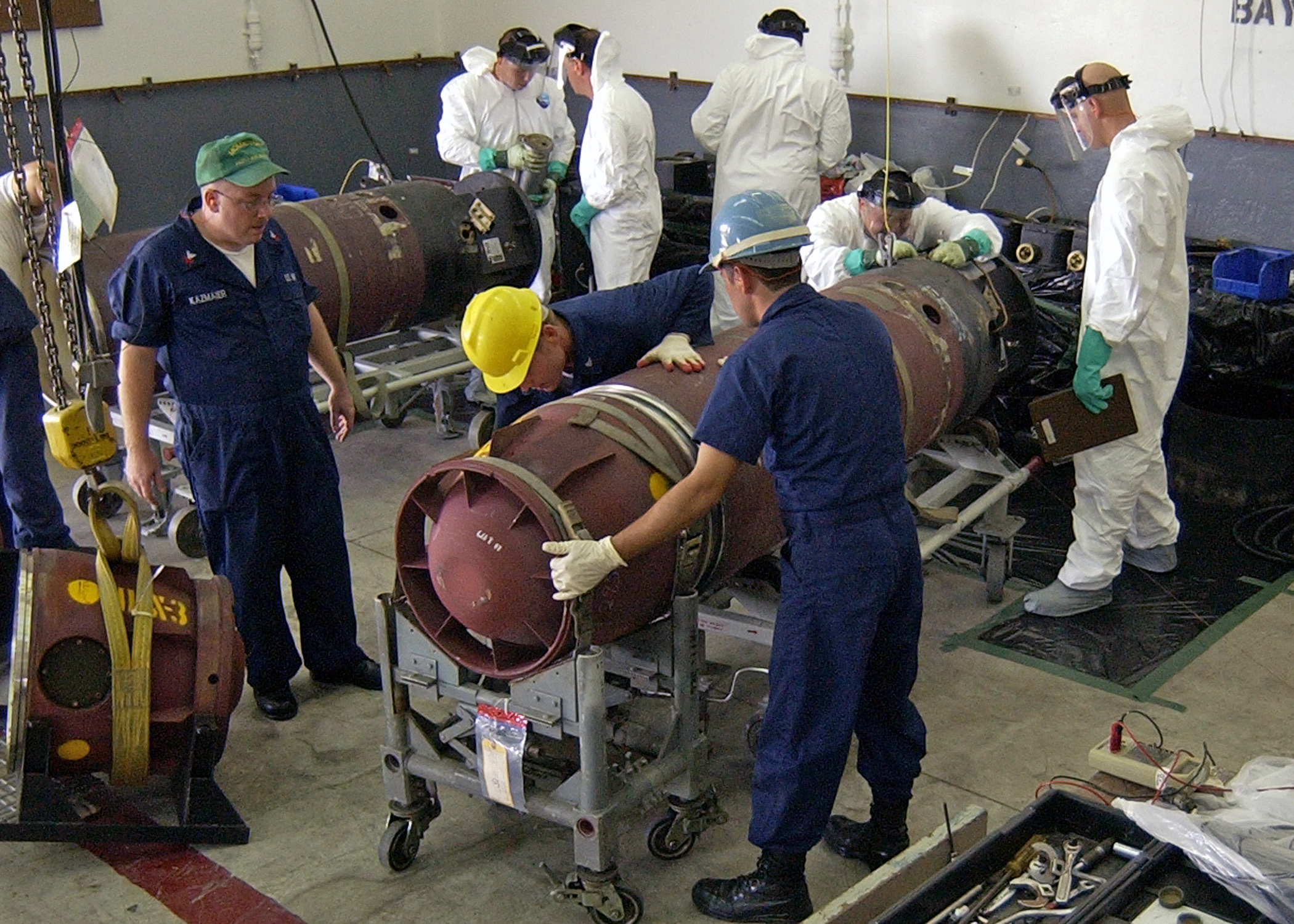 Santa Rita, Guam (Mar. 24, 2004) – Mineman 1st Class Cary W. Kazmaier, acting as Safety Observer, watches as Mineman 3rd Class Harold L. Ayres, Jr. and Mineman 2nd Class D. Valles attach the warhead to a Mark 56 Moored Mine while other Sailors in protective suits work with the chemicals in the anchor section of the device. Petty Officers Ayres and Kazmaier are both attached to Mobile Mine Assembly Unit Eight (MOMAU 8), located at U.S. Naval Magazine, Guam. Petty Officer Valles, a Naval Reservist with Naval Reserve MOMAU 10, home ported in El Paso, TX, is performing his annual drill time with MOMAU 8 on Guam. Naval Reservists regularly drill at MOMAU 8. U.S. Navy photograph by Photographer's Mate 2nd Class Nathanael T. Miller. (RELEASED)